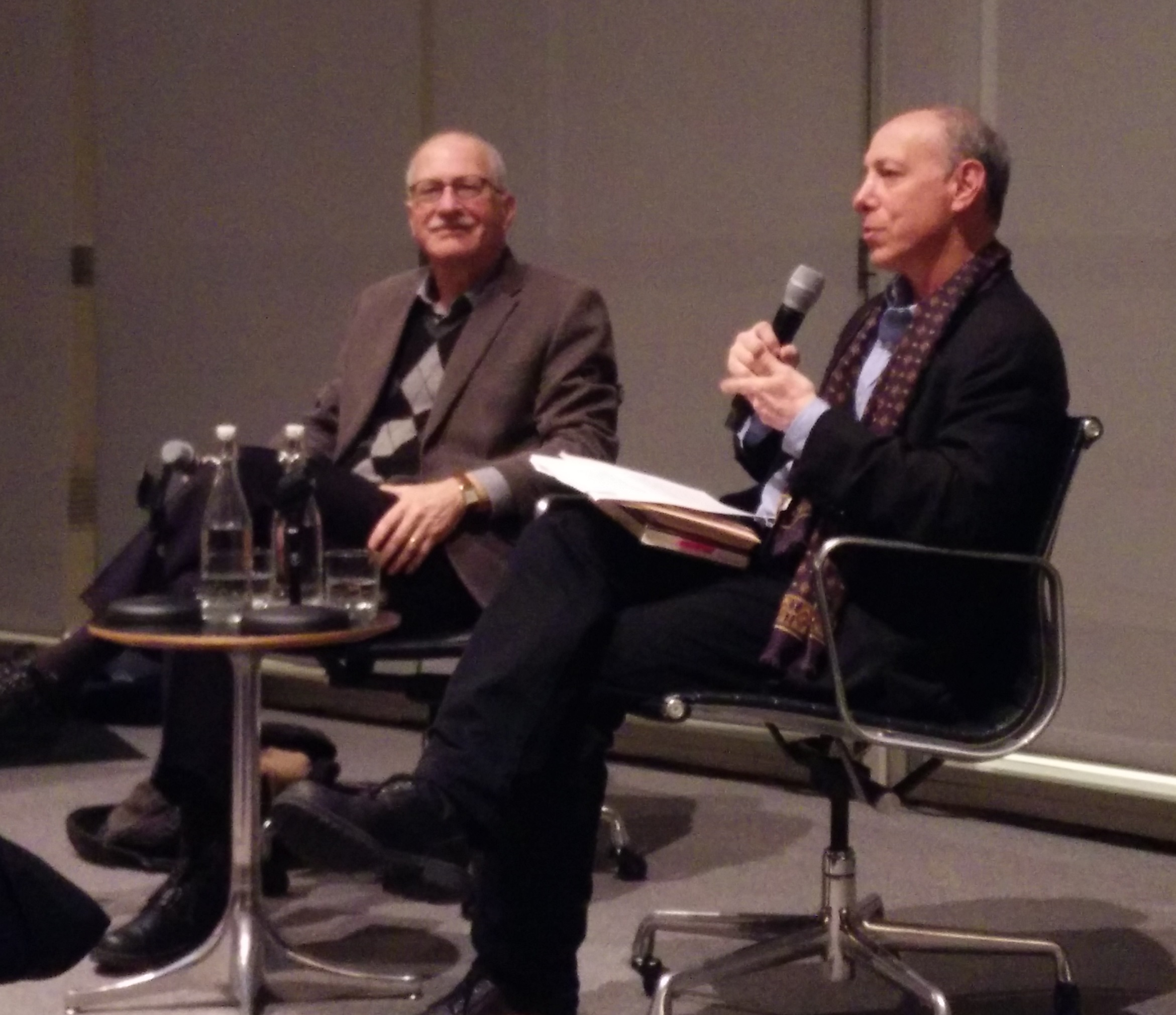 Martin Jay (left), in conversation with Richard Wolin, at the event 'Reason After Its Eclipse: A Conversation with Martin Jay' at The Graduate Center, CUNY